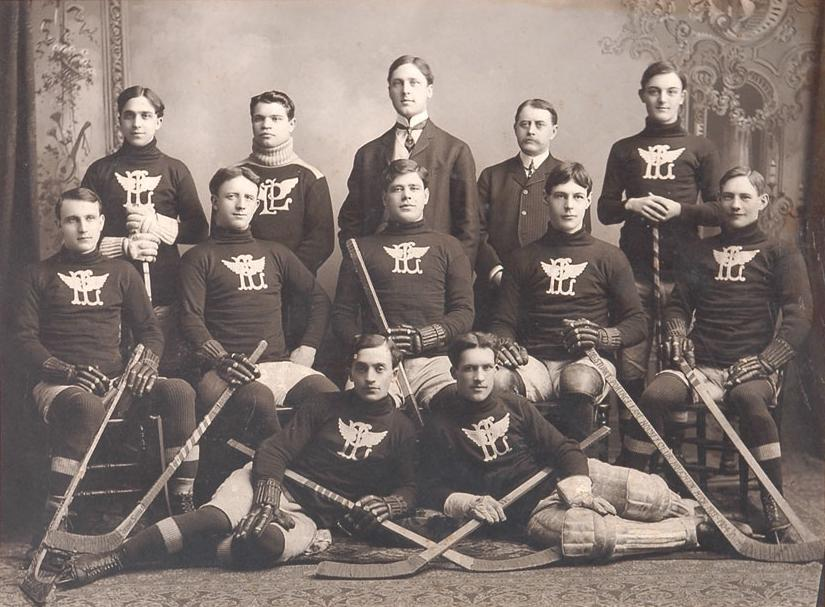 Portage Lakes Hockey Club in 1904.Back row: N.F. Westcott, sub, James Duggan, trainer, C.E. Webb, manager, J.R. Dee, President, Joe Linder, subMiddle row: Bertram C. Morrison, rover, W.C. Shields, right wing, Jack Gibson, point (captain), Hod Stuart, cover-point, Bruce Stuart, centreFront row: Ernest Westcott, left wing, Riley Hern, goaltender